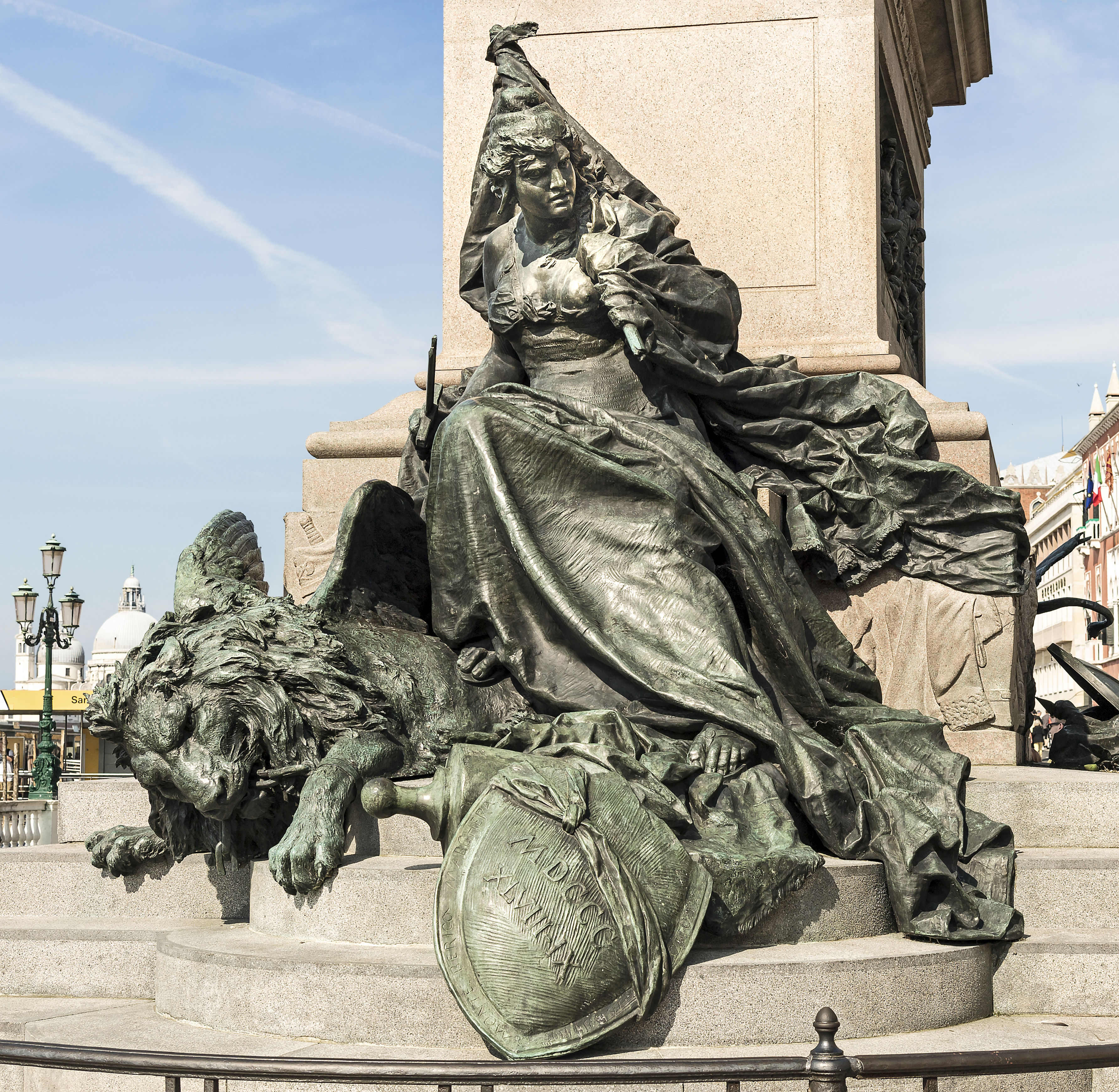 Monument of Victor Emmanuel II located on the Riva degli Schiavoni. Subjugated Venice it is the work of Ettore Ferrari and was erected in 1887.